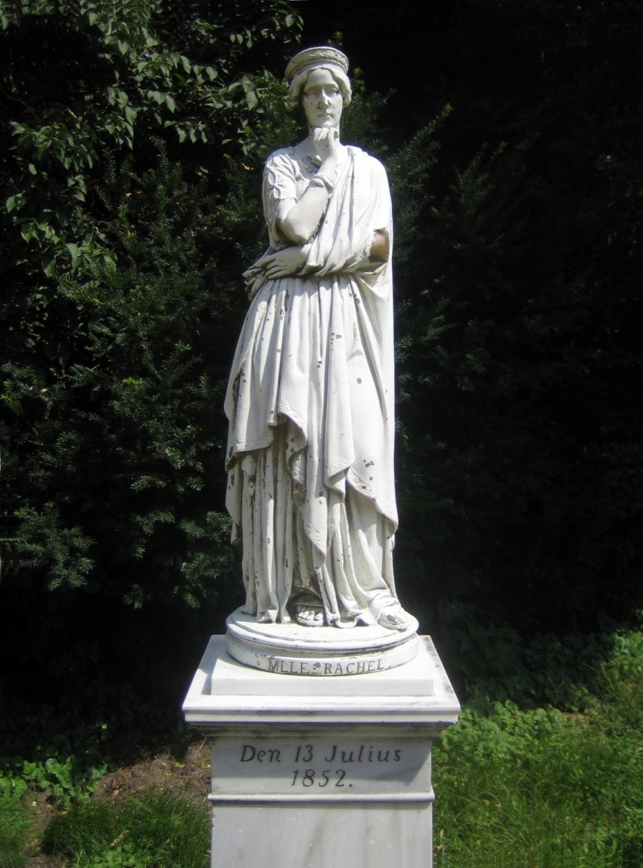 Berlin, Pfaueninsel (Isle of peacocks). Marble memorial (1850) for Mademoiselle Rachel, a French actress.